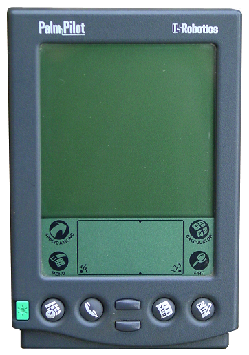 Self-made. And my own trusty Pilot, too. Channel ® 15:41, 12 April 2008 (UTC)